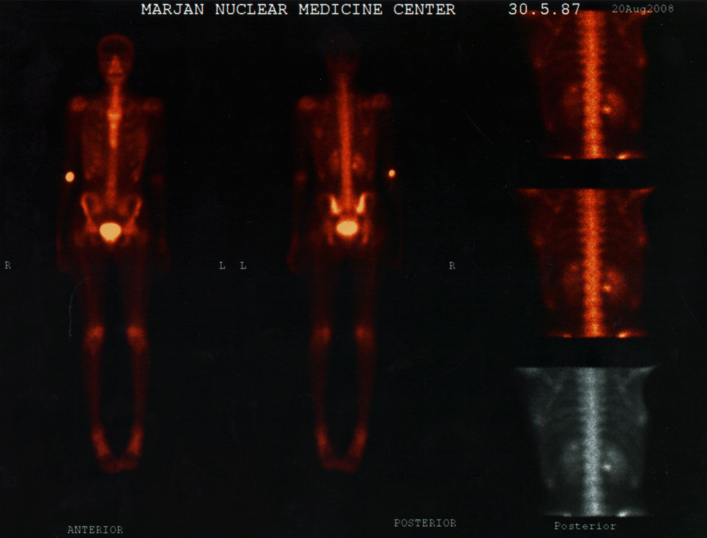 Whole body bone scan at 3 hours post IV injection of 20mCi of 99mTc-MDP. Performed in Tehran, Iran.